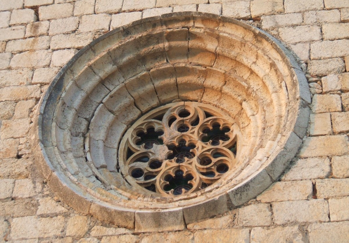 Sant Martí d'Empúries (Catalunya) : Saint-Martin church (rebuilt in the XVIth century) ; rose window of the facade.